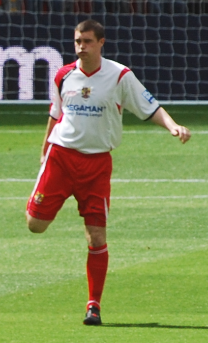 Darren Murphy. Image cropped from original at flickr.